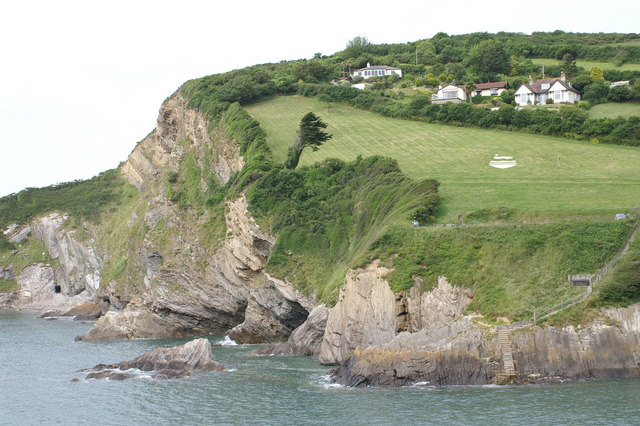 Cliffs at Combe Martin.